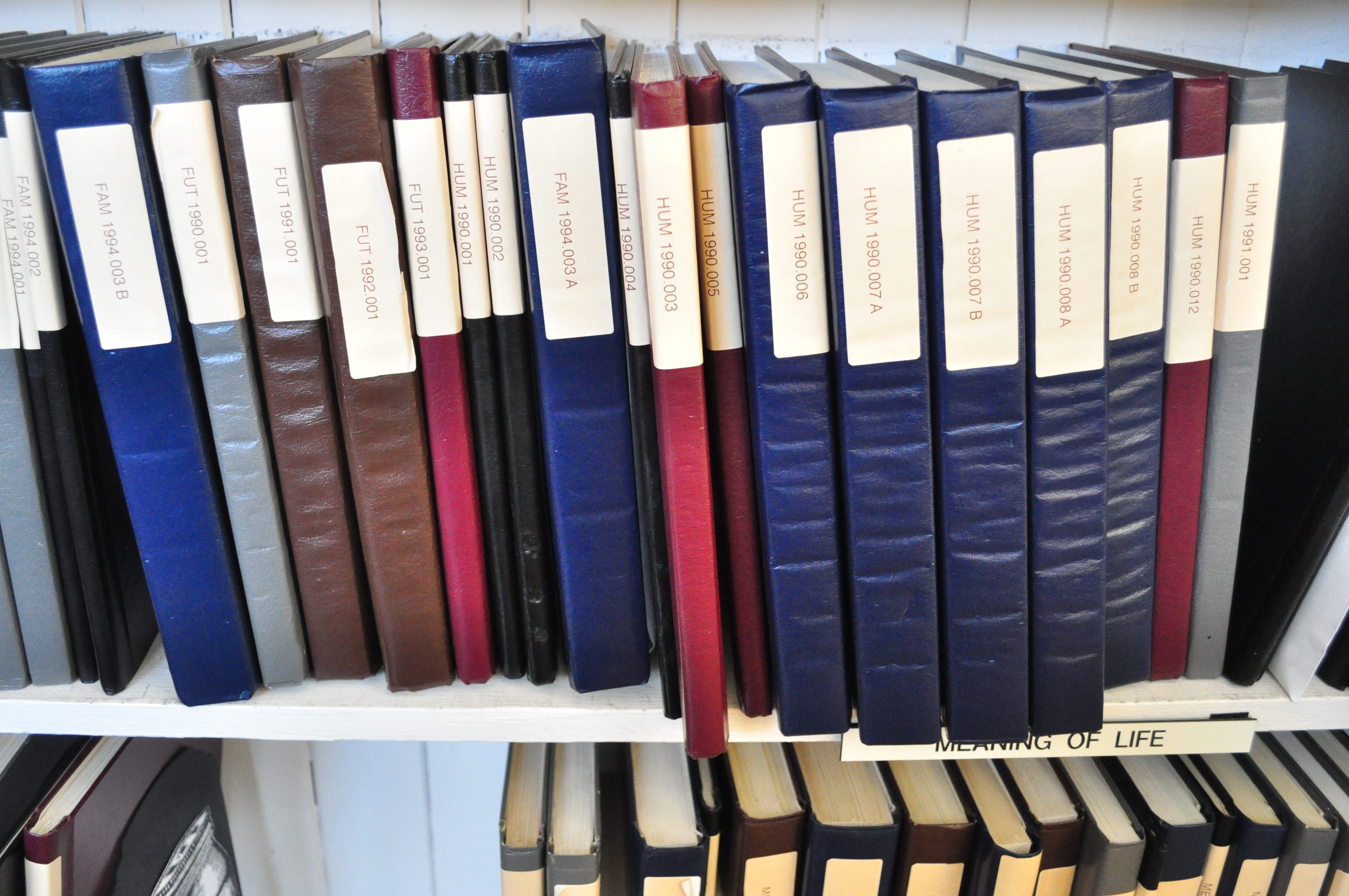 Brautigan Library at Clark County Historical Museum (former Carnegie Library), Vancouver, Washington. The Brautigan Library is a library of unpublished manuscripts, inspired by Richard Brautigan's novel The Abortion: An Historical Romance 1966 (1971).